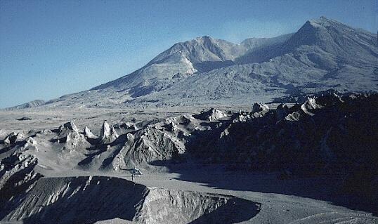 Mount St. Helens in September 1980, after the May, 18 eruption